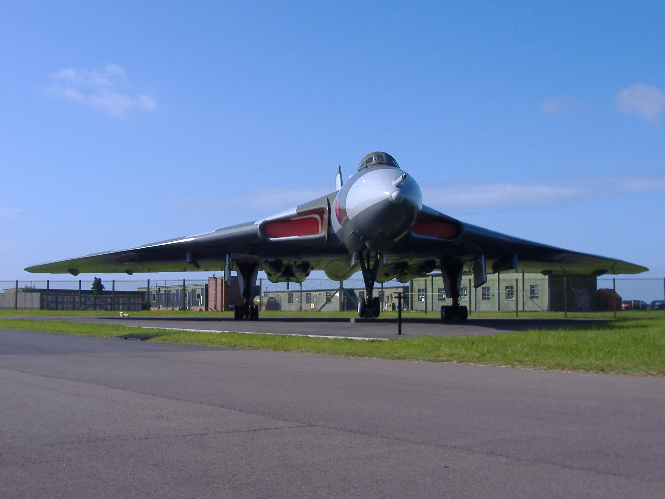 A.V. Roe Vulcan XM607, gate guardian at RAF Waddington. Photo taken 20 May 2007.